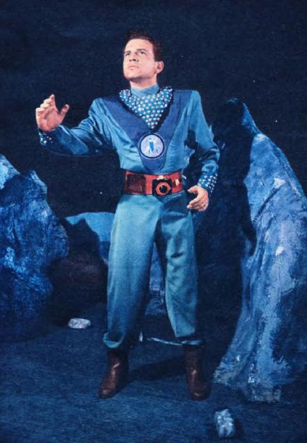 Photo of Frankie Thomas as Tom Corbett from the television program Tom Corbett, Space Cadet.